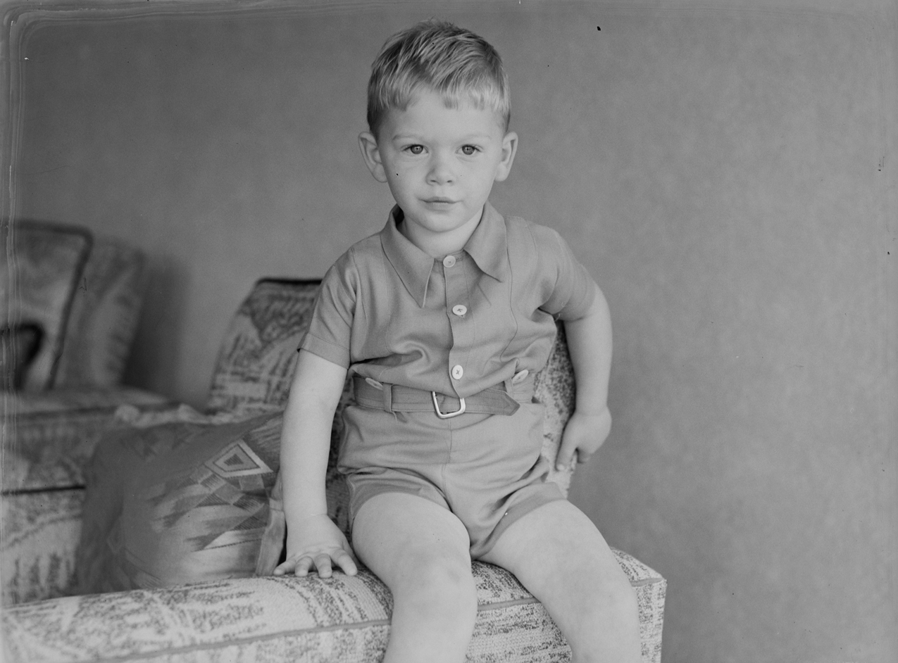 He is sitting inside on the arm of the armchair.